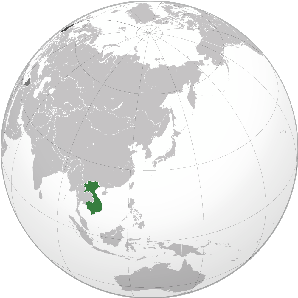 Green: French IndochinaDark gray: Other French possessionsDarkest gray: French Republic Note: Thin white lines designate the subdivisions of French Indochina that now constitute modern-day Vietnam